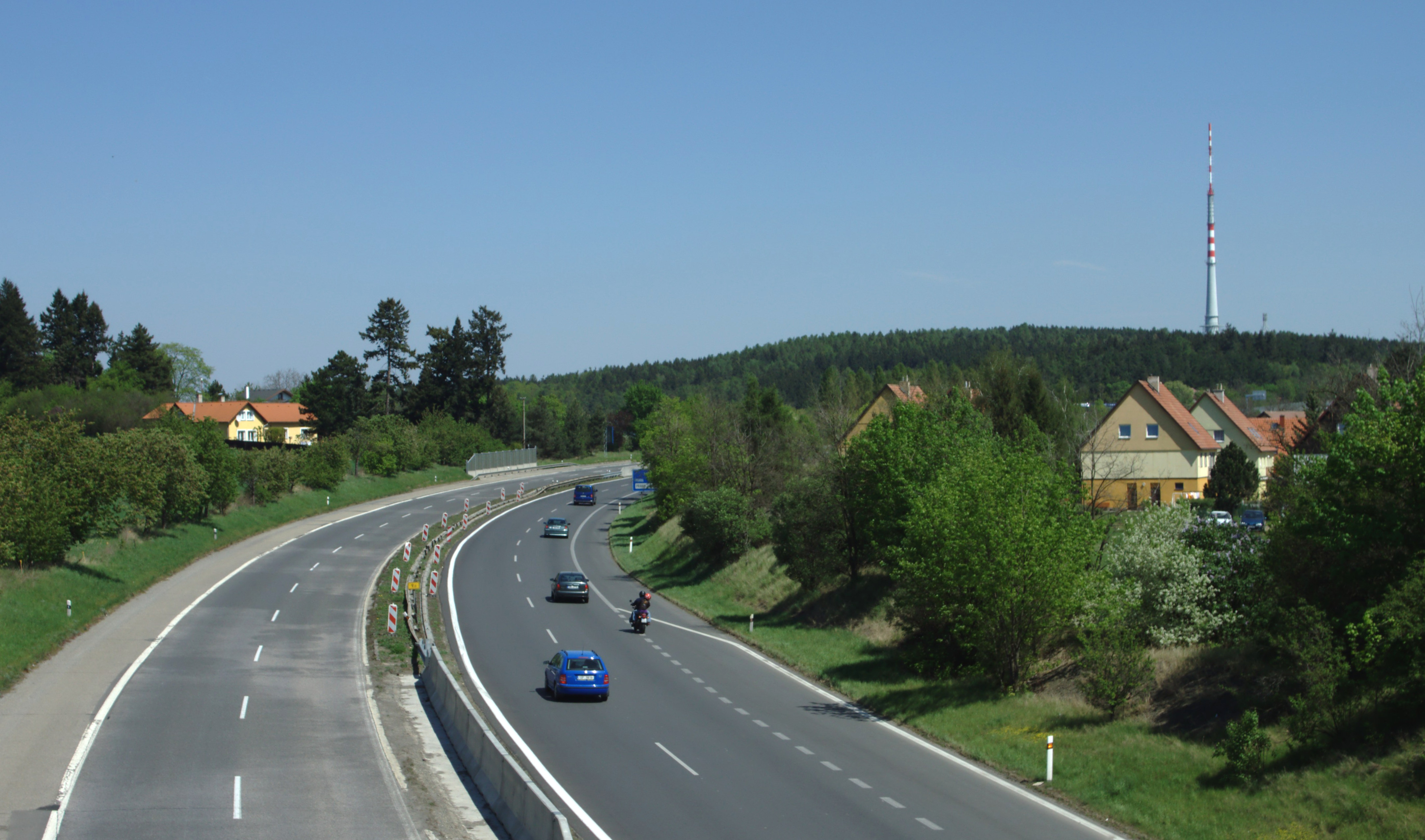 R4 expressway near the village of Jíloviště, about 15 kms south from Prague, CZ